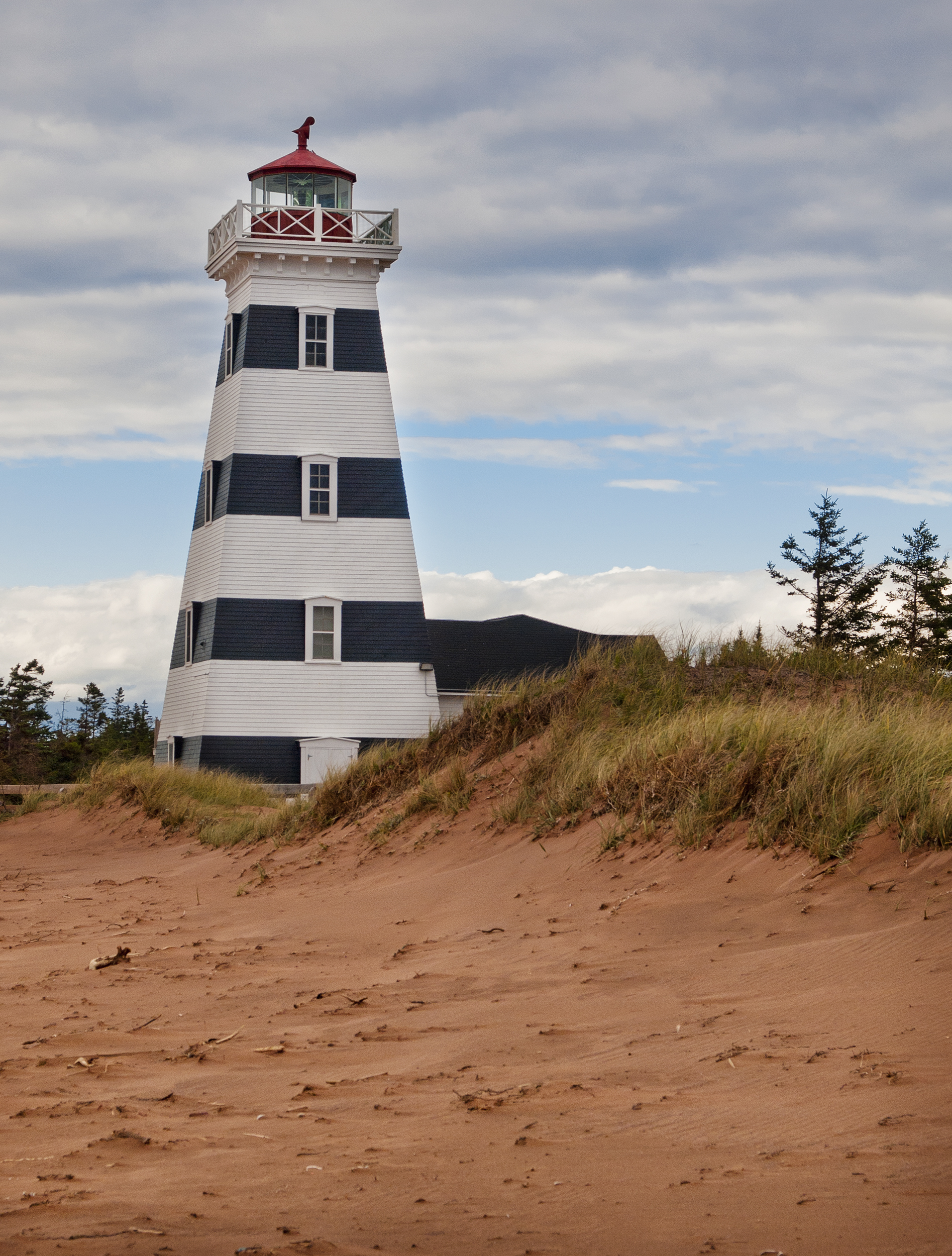 West Point Lighthouse at Cedar Dunes Provincial Park, Prince Edward Island